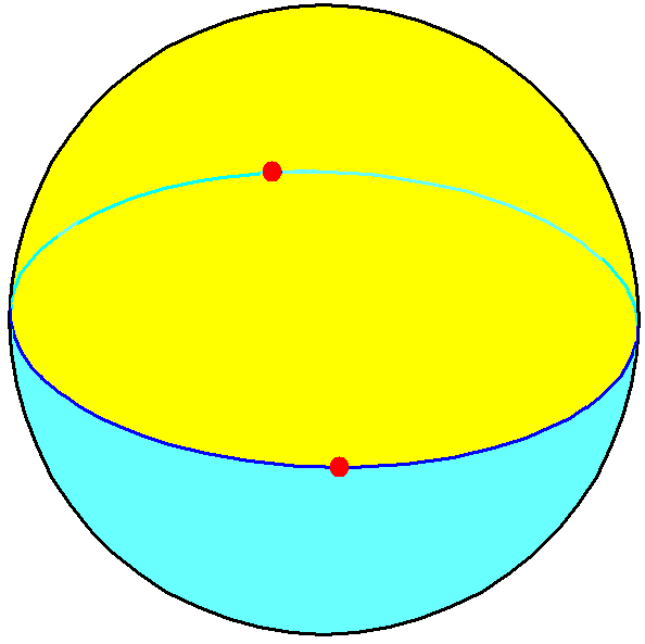 Dihedron